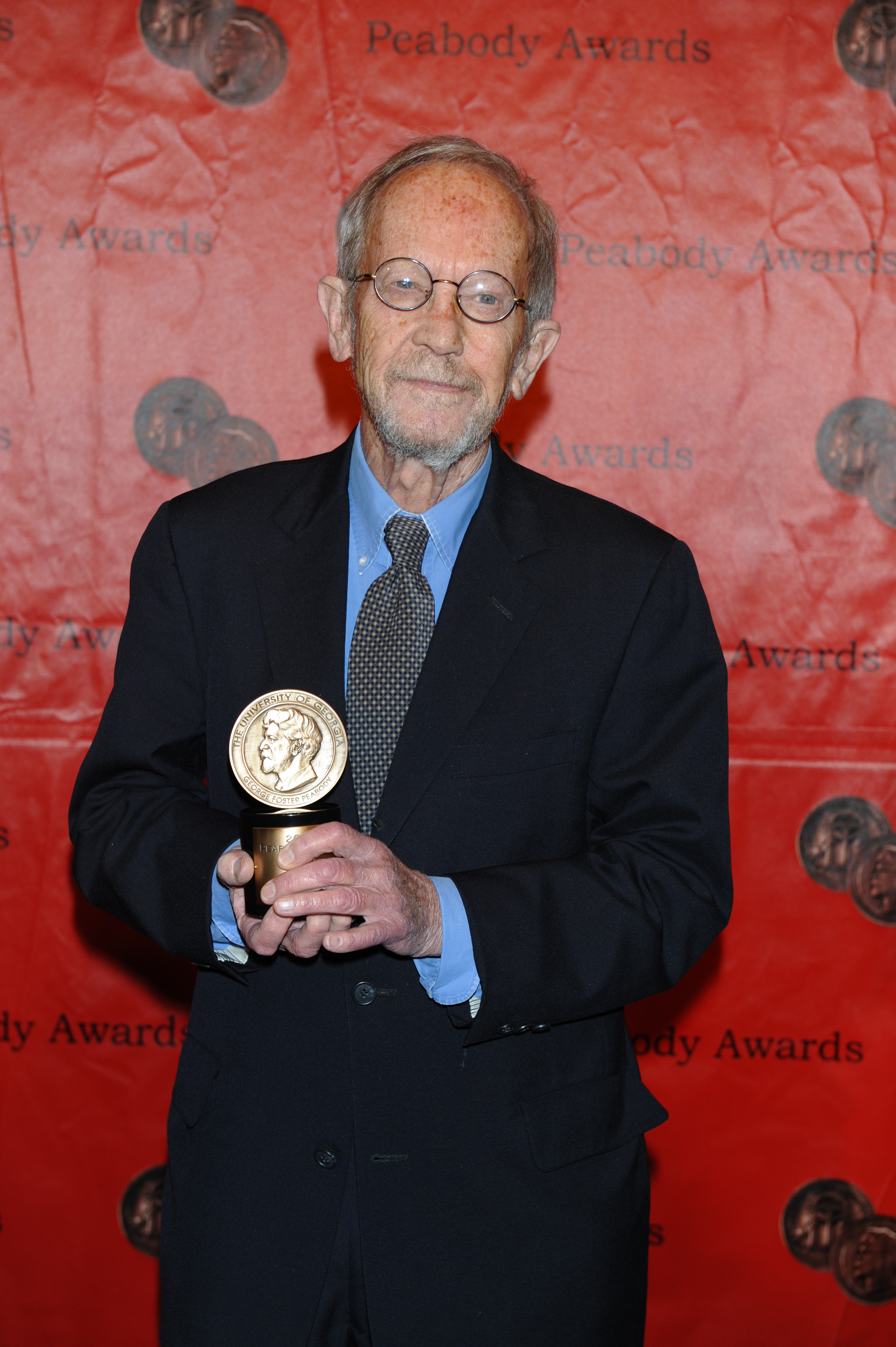 PHOTO CREDIT: ANDERS KRUSBERG / PEABODY AWARDS 70th Annual Peabody Awards Luncheon Waldorf=Astoria Hotel May 23, 2011